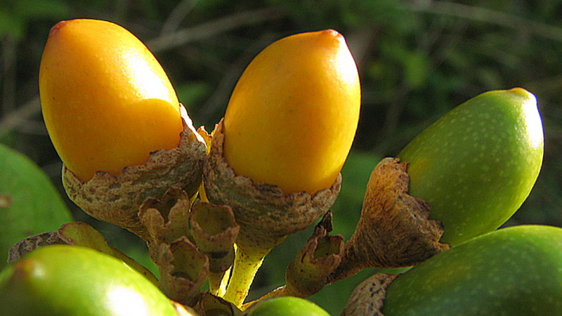 Aegiphila fluminensis, Entre Rios, Bahia, Brazil